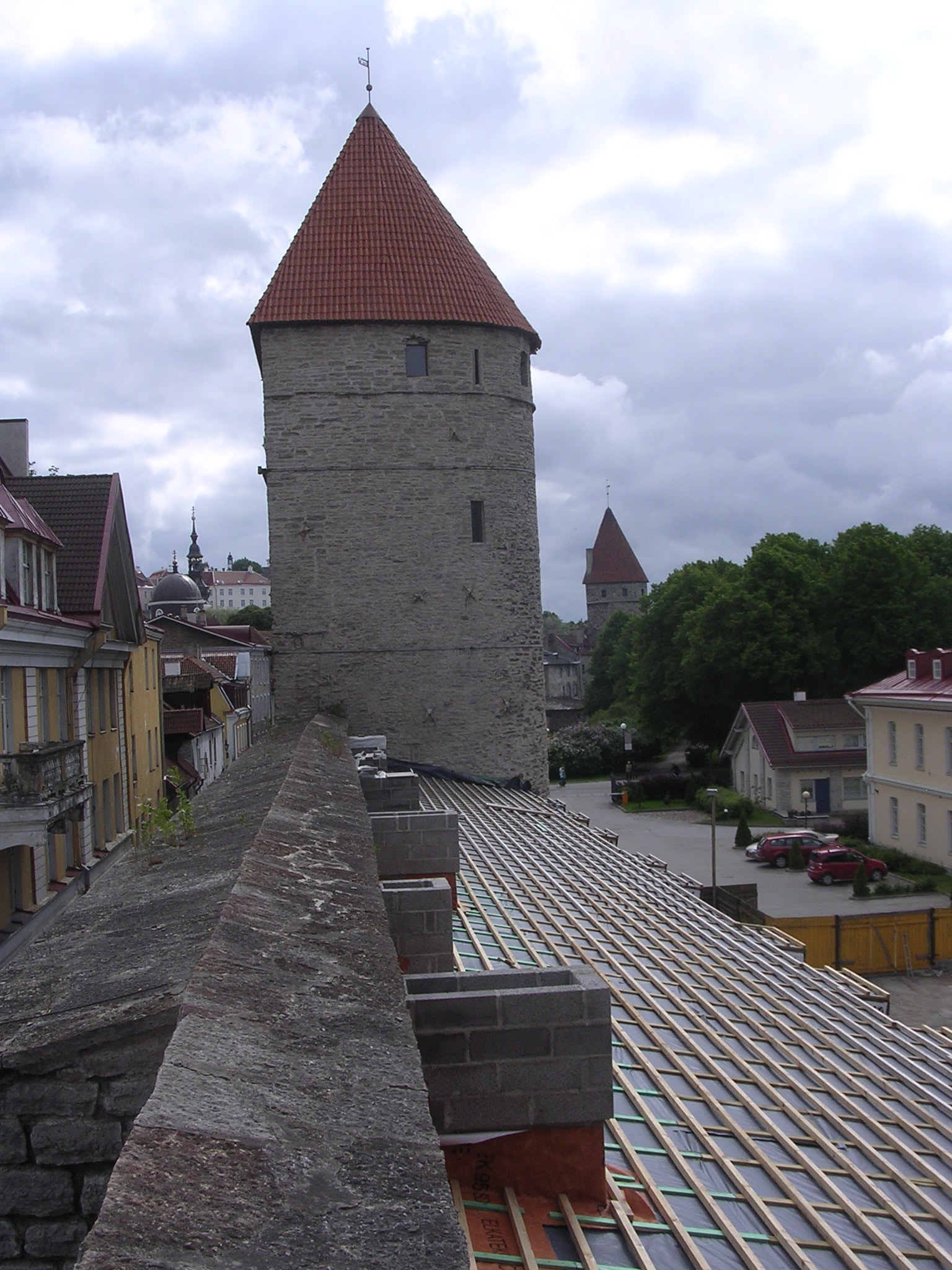 Epping tower